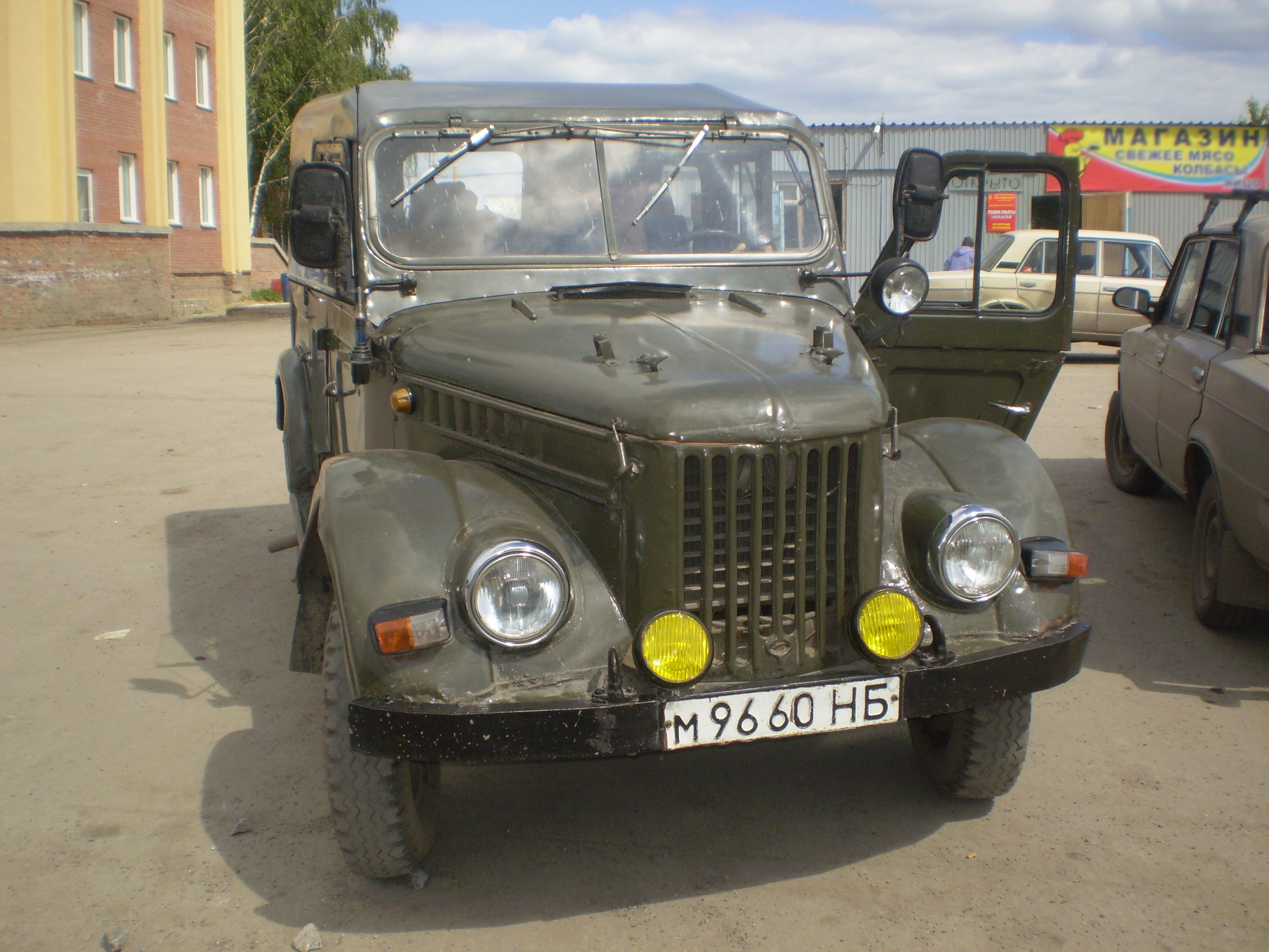 UAZ-69A.